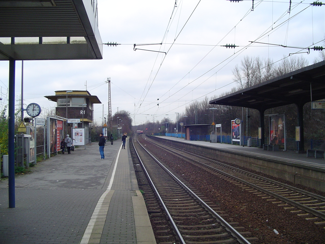 Train station in Düsseldorf-Reisholz (S-Bahn), Germany